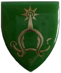 SADF era Ficksburg Commando emblem